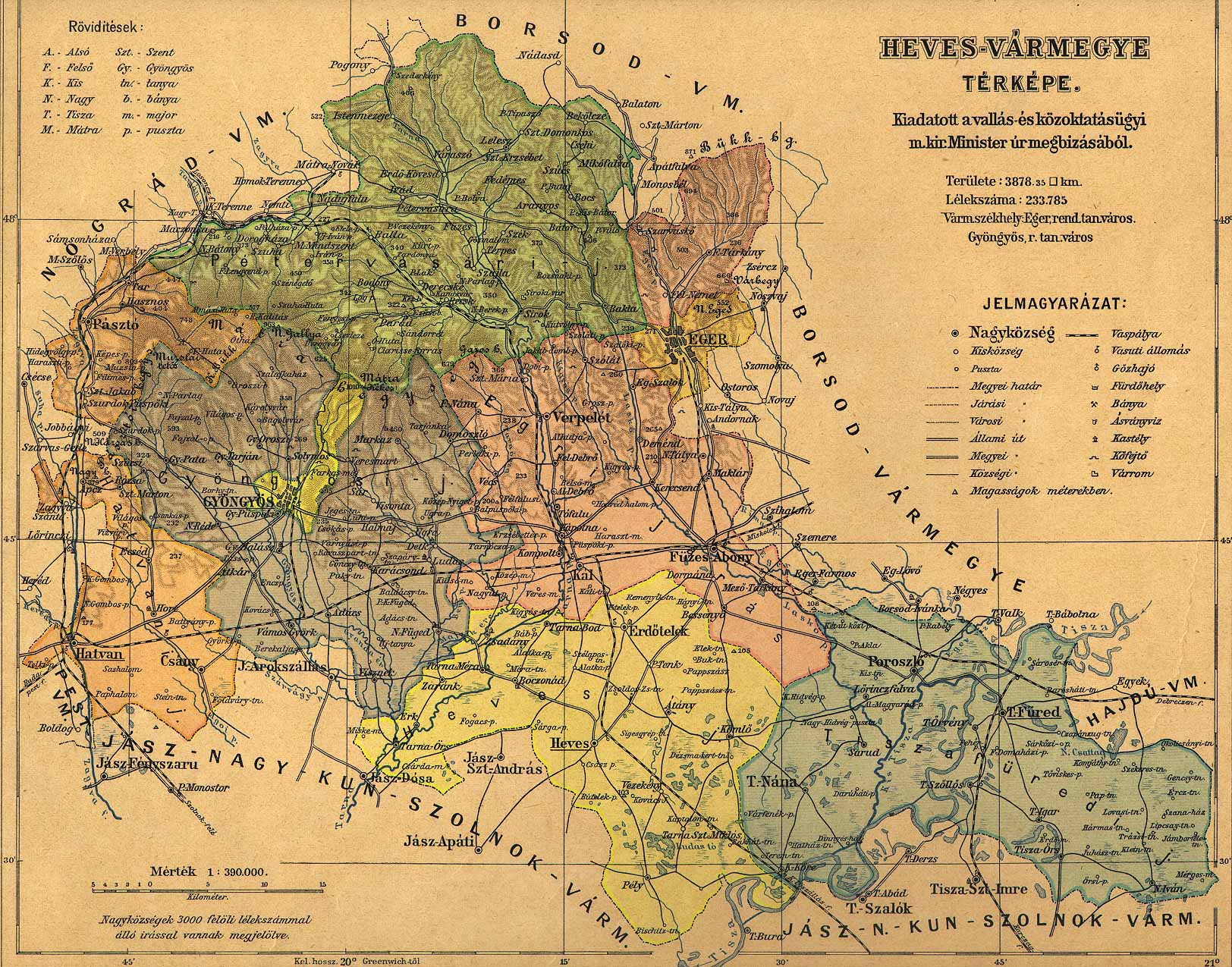 Administrative map of the county of Heves in the Kingdom of Hungary